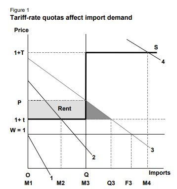 A chart on economic impact of TRQ